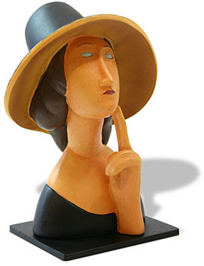 Jeanne Hébuterne (1918) Painted statute